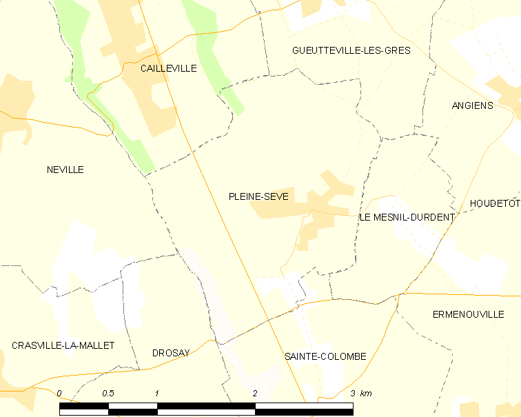 Map of French municipality Pleine-Sève